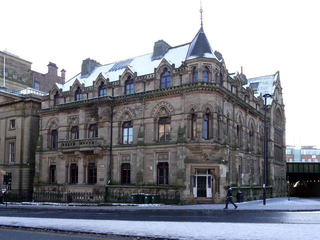 Neville Hall and Wood Memorial Hall, Westgate Road. Offices, library and lecture theatre built in 1870 by A.M. Dunn for the North of England Institute of Mining Engineers. The massive, Victorian Gothic design is enhanced using bands of a deeper red coloured sandstone and Shap granite columns at the entrance. The building commemorates Newcastle's former pre-eminence in coal mining and the coal trade. It houses the world's most significant mining library and related primary material Another photo from a similar angle is here 1111333 Behind the railings on the front of the building, under a layer of concrete, lie the lower courses of the south face of Hadrian's Wall, the line of which is now followed by Westgate Road, heading west from Newcastle.